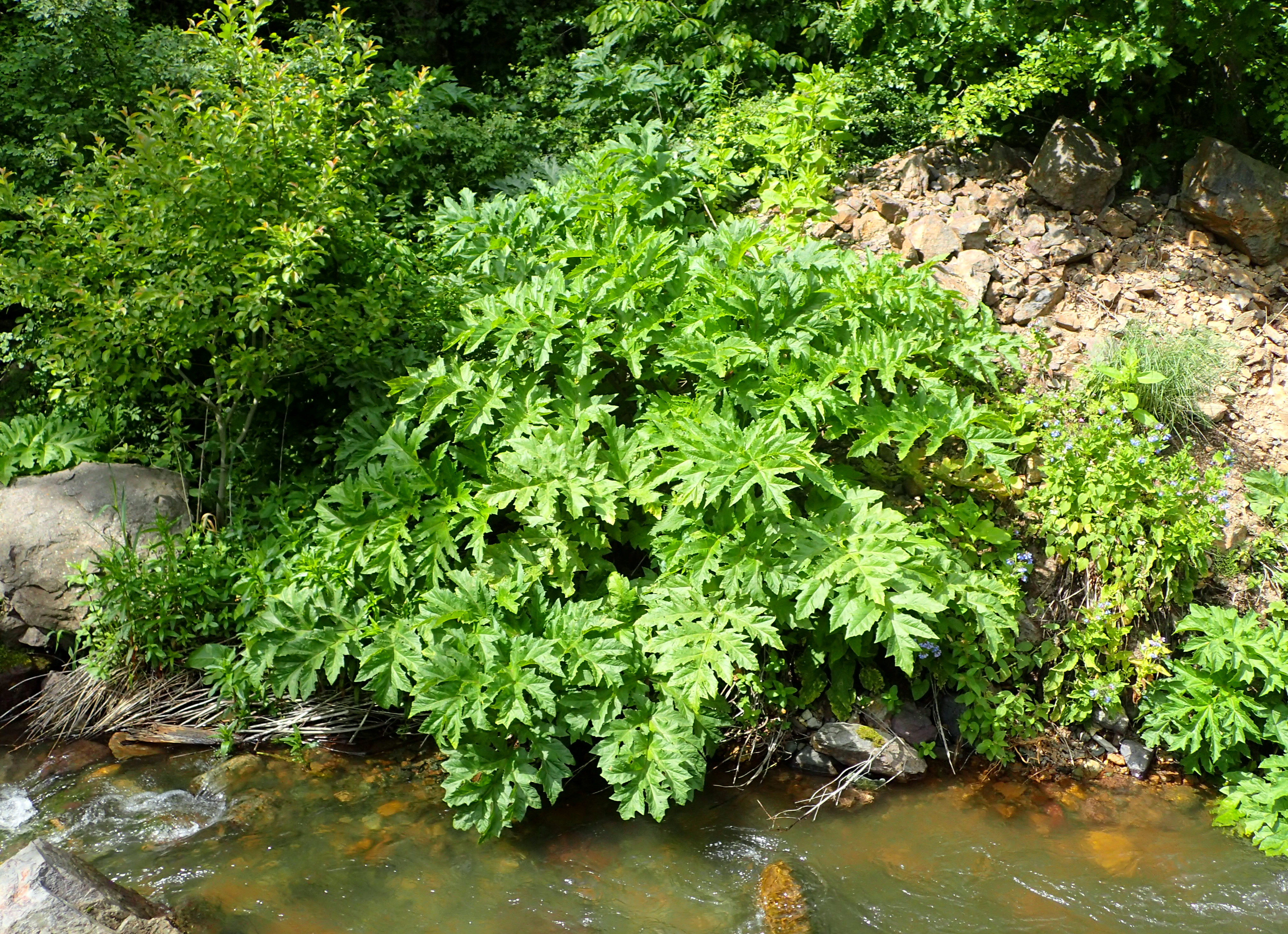 Heracleum trachyloma on the river south west from Tsav, Armenia